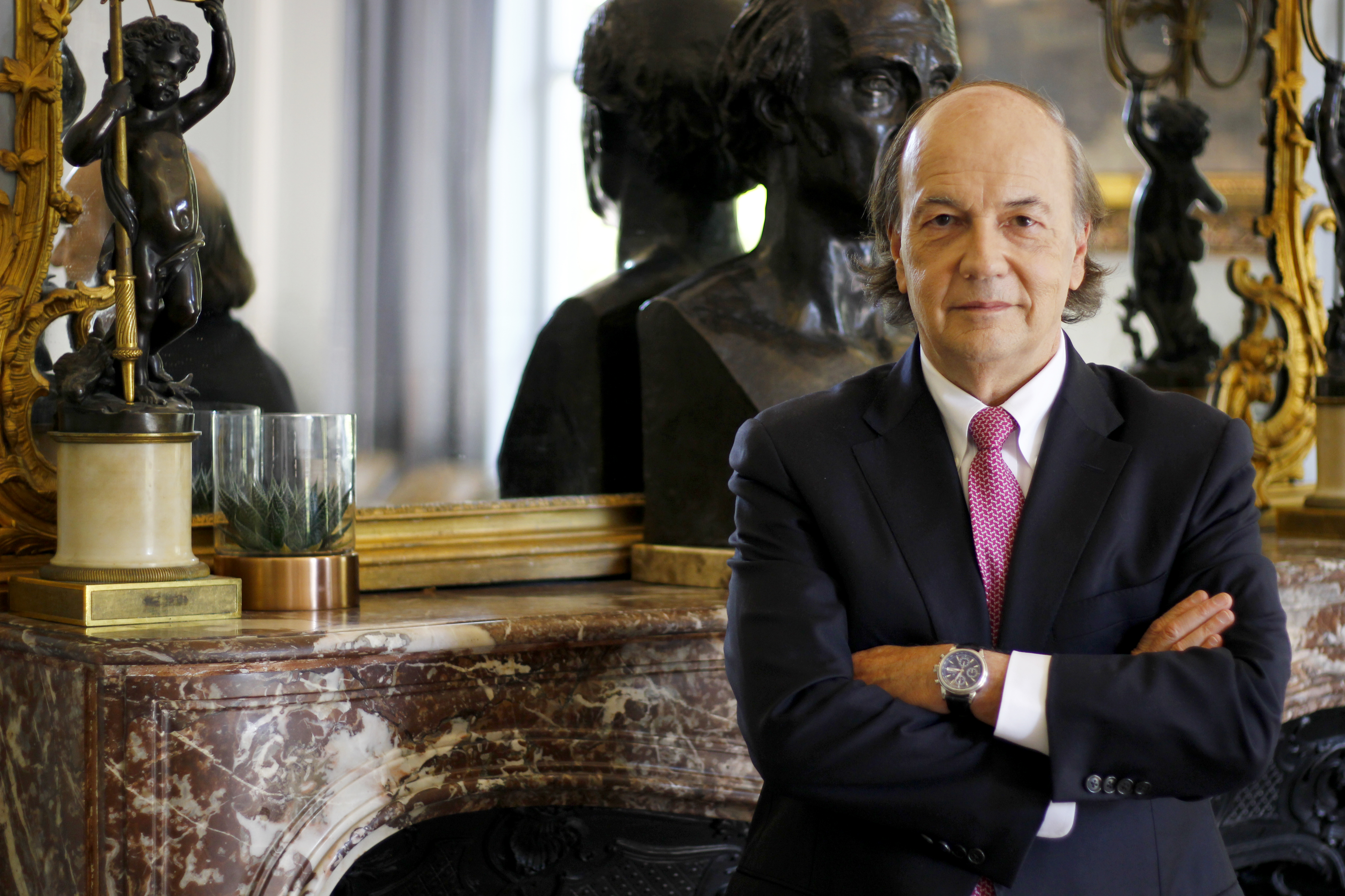 Portrait of James G. Rickards (Jim Rickards), writer of various newsletters and books about finance.